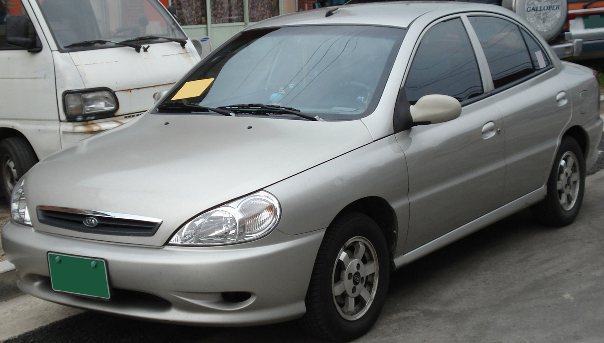 Kia Rio